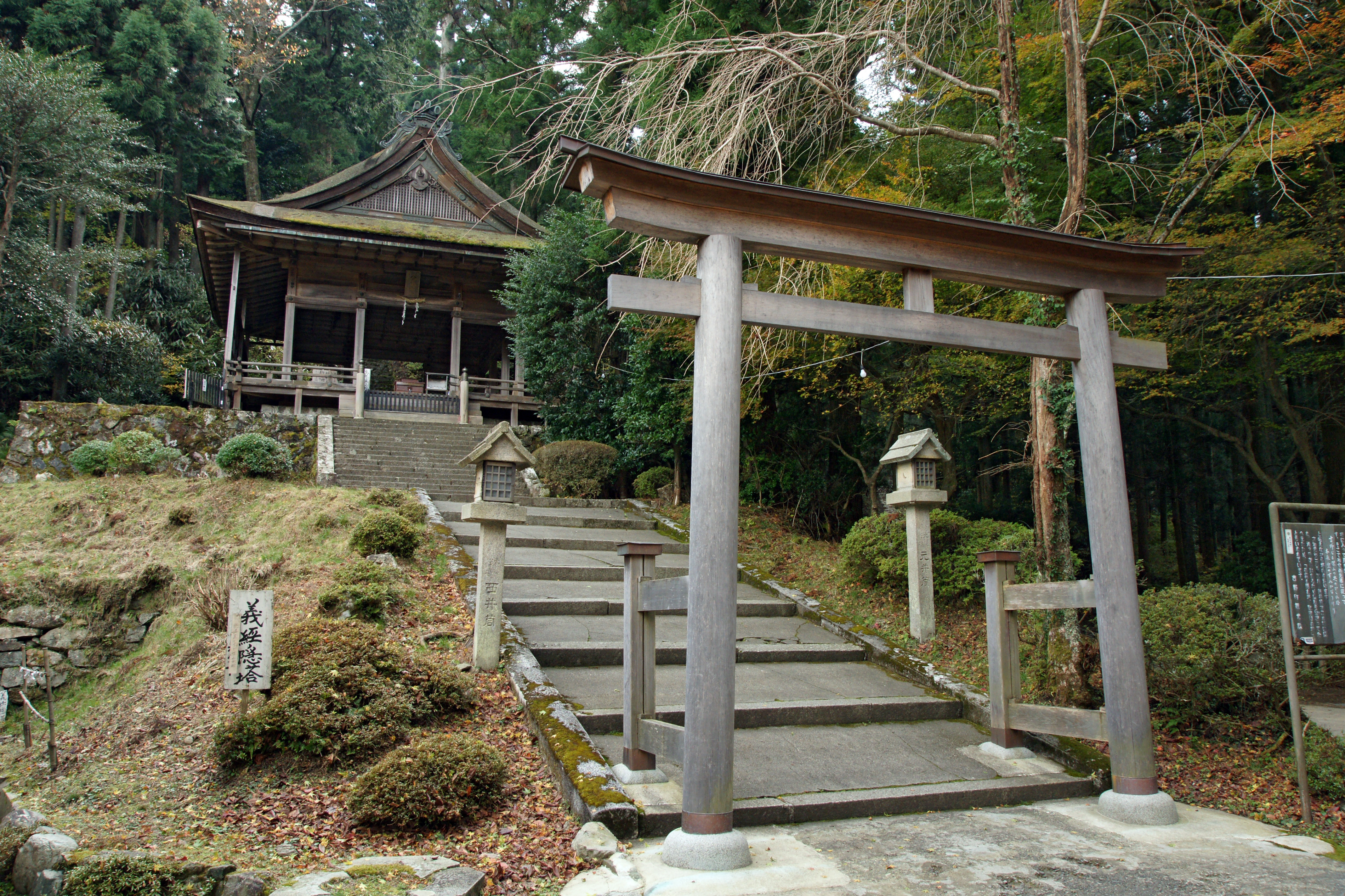 Kinpu-jinja in Yoshino, Nara prefecture, Japan